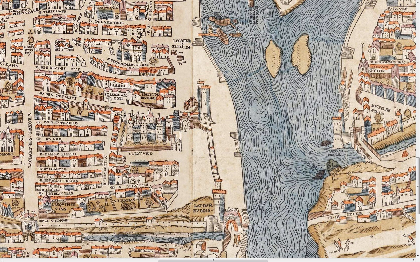 The 3 towers (tour de Nesle, tour du coin, tour du bois) on the Plan de Truschet and Hoyau (1550).